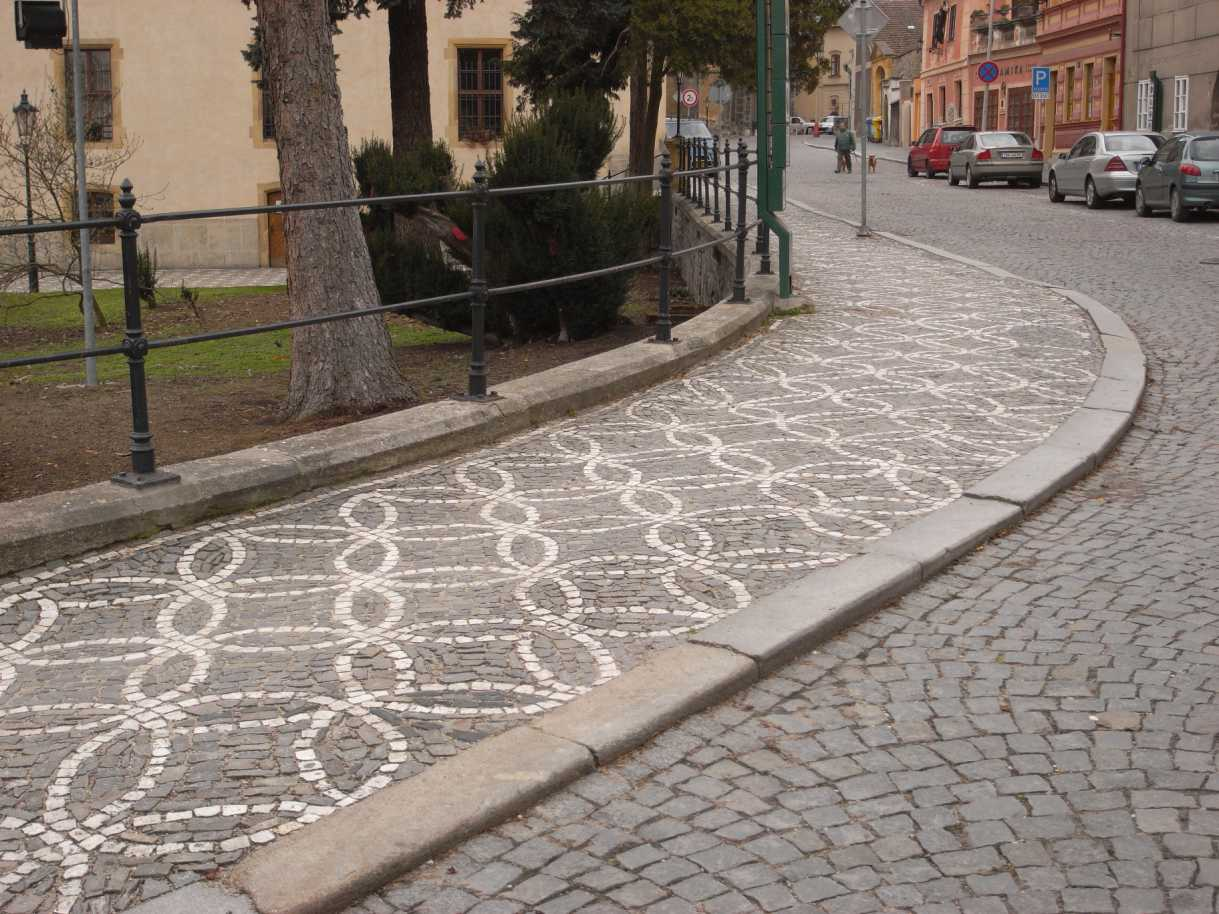 old handmade marble/gneiss cobblestones in Kutná Hora (Czech Republic) and roadside curb of granite